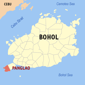 Map of Bohol showing the location of Panglao